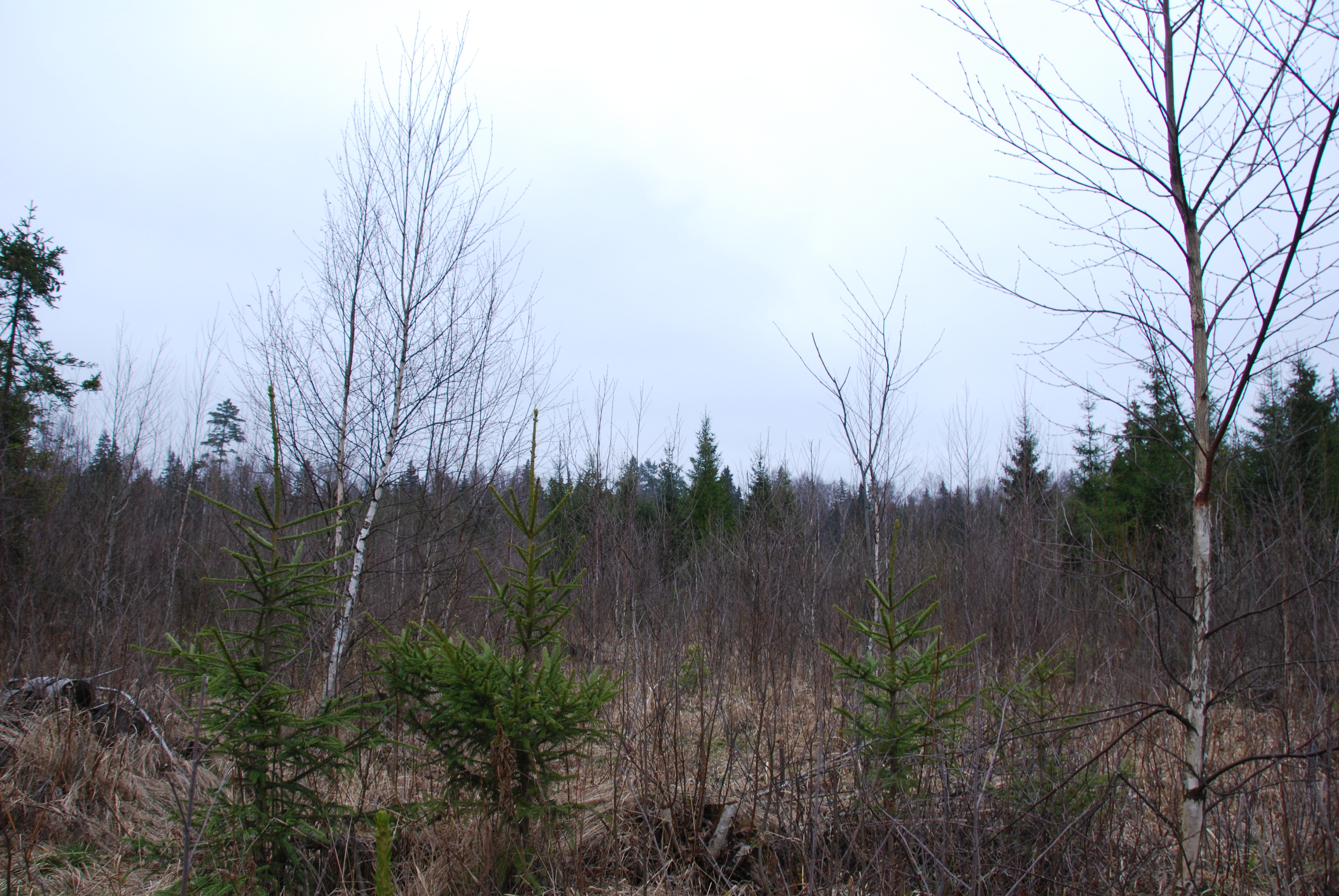 Young forest near peat marches in Moscow region, Russia